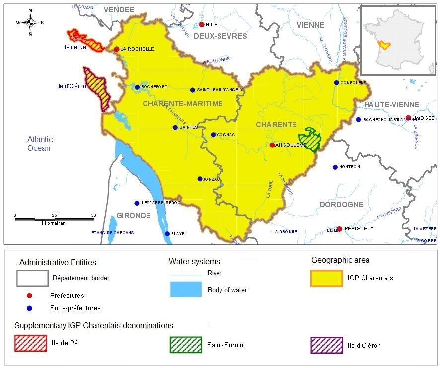 Map of IGP Charentais French wine region covering the départements of Charente-Maritime and Charente in south-west France.